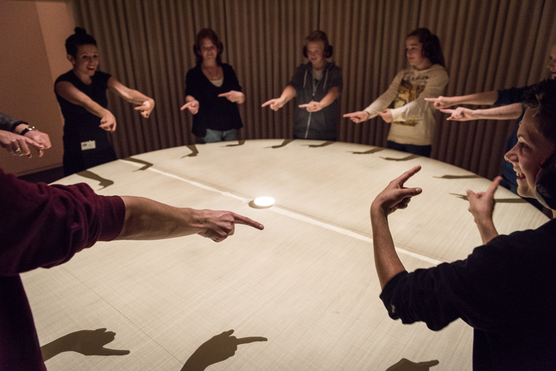 Visitors at the exhibition Dialogue in Silence in the room "Gallery of Hands"